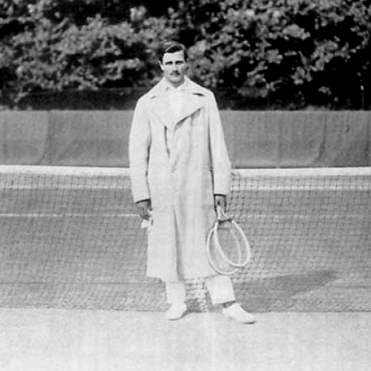 German tennis player Otto Froitzheim at the Summer Olympics 1908 in London.